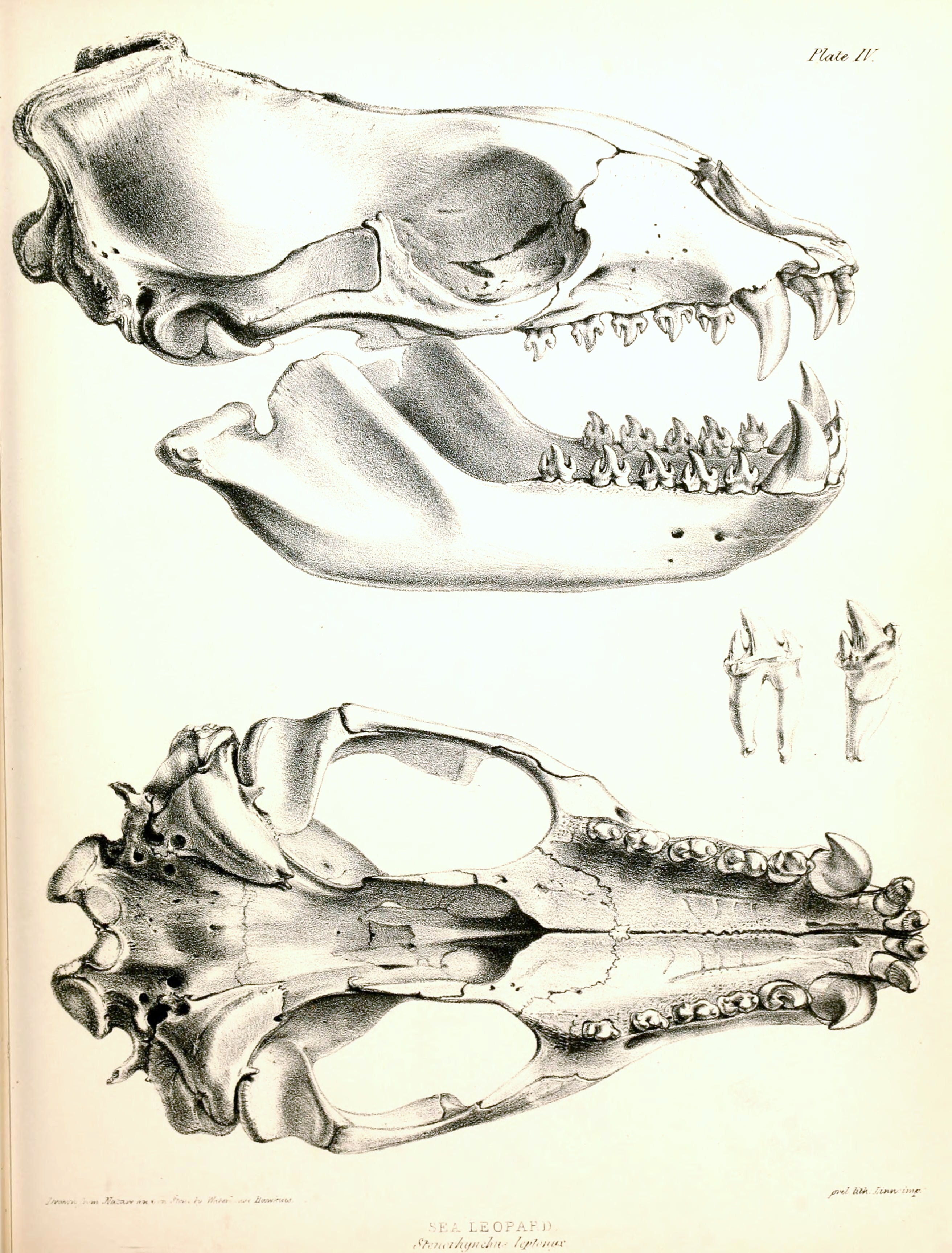 Leopard Seal skull (Hydrurga leptonyx)